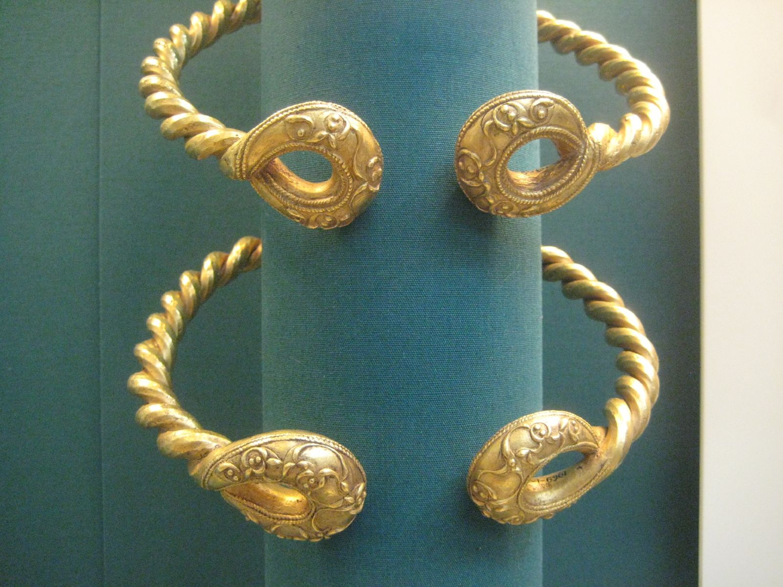 Gold, buried around 75 BC at Ipswich, Suffolk, England. Ipswich Hoard